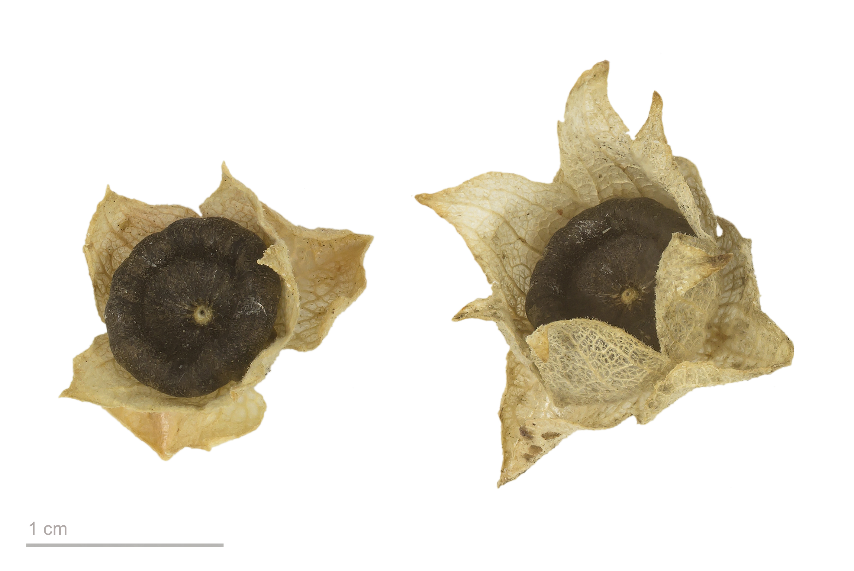 Kitaibela vitifolia, , seeds